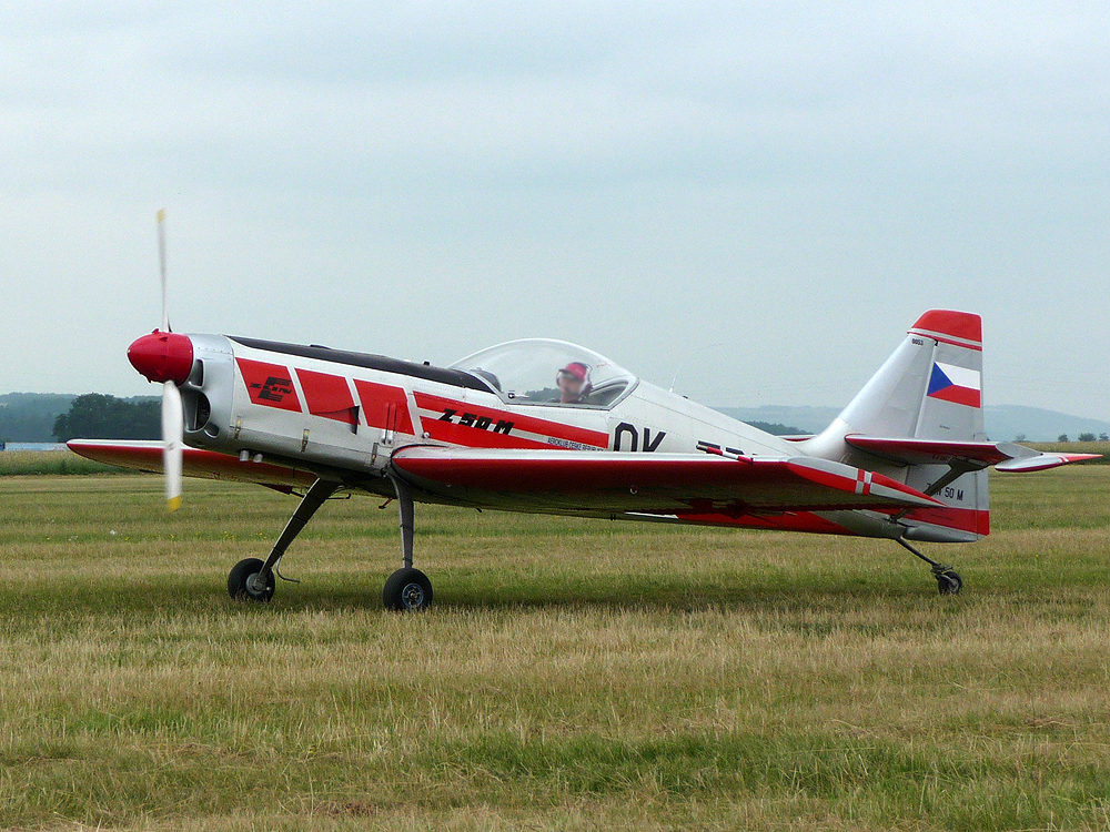 Zlin Z-50M, OK-TRM